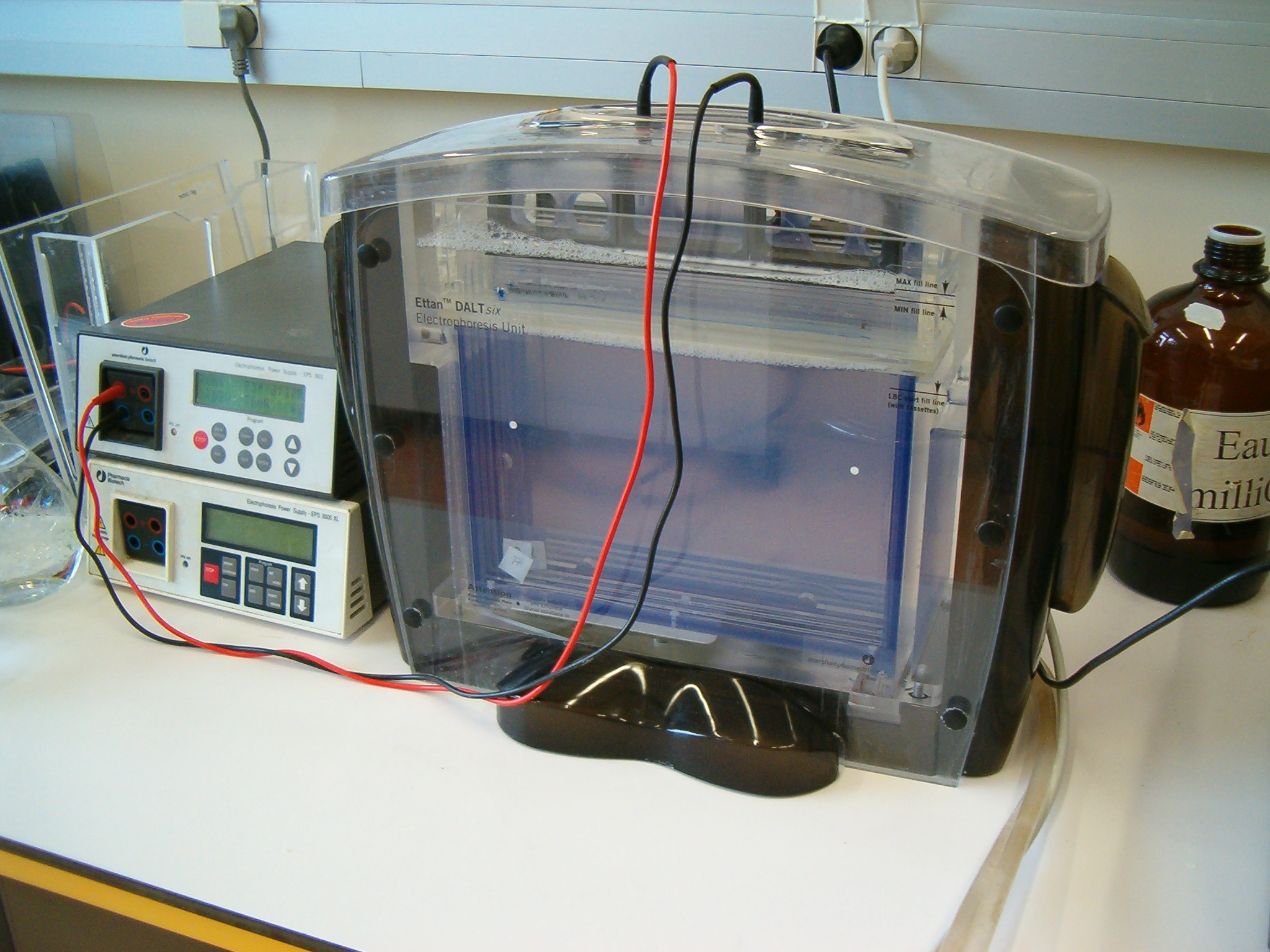 Ettan DALTsix with 2D polyacrylamide 2D gels running